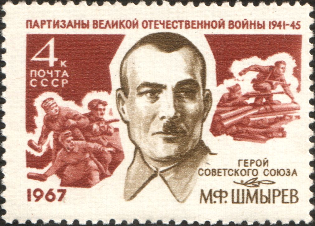 A USSR stamp, Military persons of the USSR